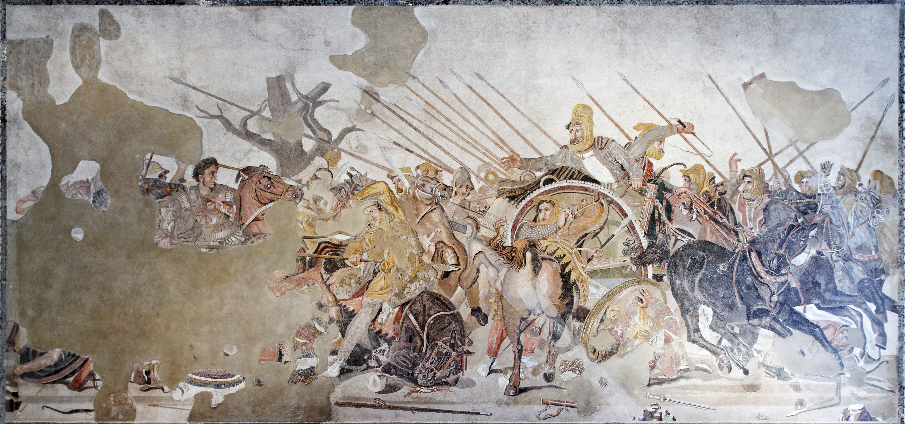 The battle of Issos between Alexander the Great and Darius of Persia. Floor mosaic, Roman copy after a Hellenistic original by Philoxenos of Eretria.